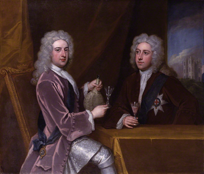 Thomas Pelham-Holles, 1st Duke of Newcastle-upon-Tyne (1693-1768) (left) and Henry Clinton, 7th Earl of Lincoln (1684-1728)